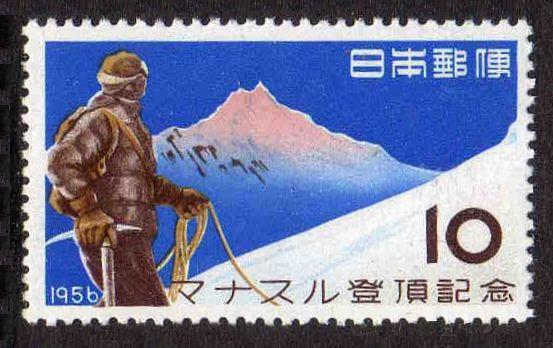 first Conquest of Manaslu by Japanese.